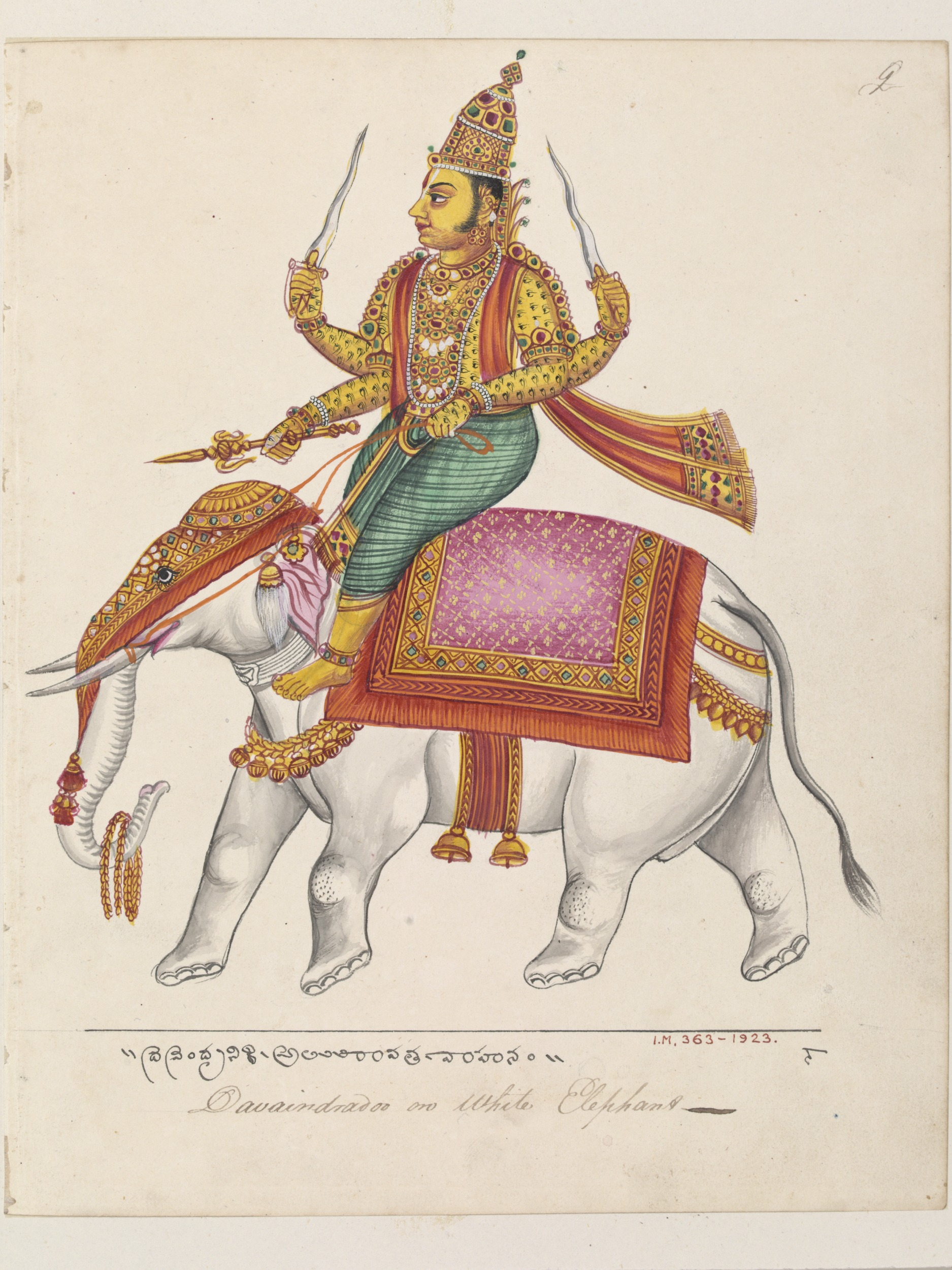 "Indra, the god of storms and guardian of the east, riding on his white elephant Airavata. He is yellow-skinned and four-armed. He holds two swords with wavy blades. His upper body is covered with eyes, jewellery and a red scarf. The loin-cloth is green. The elephant is richly caparisoned, and carries a noose in its trunk."